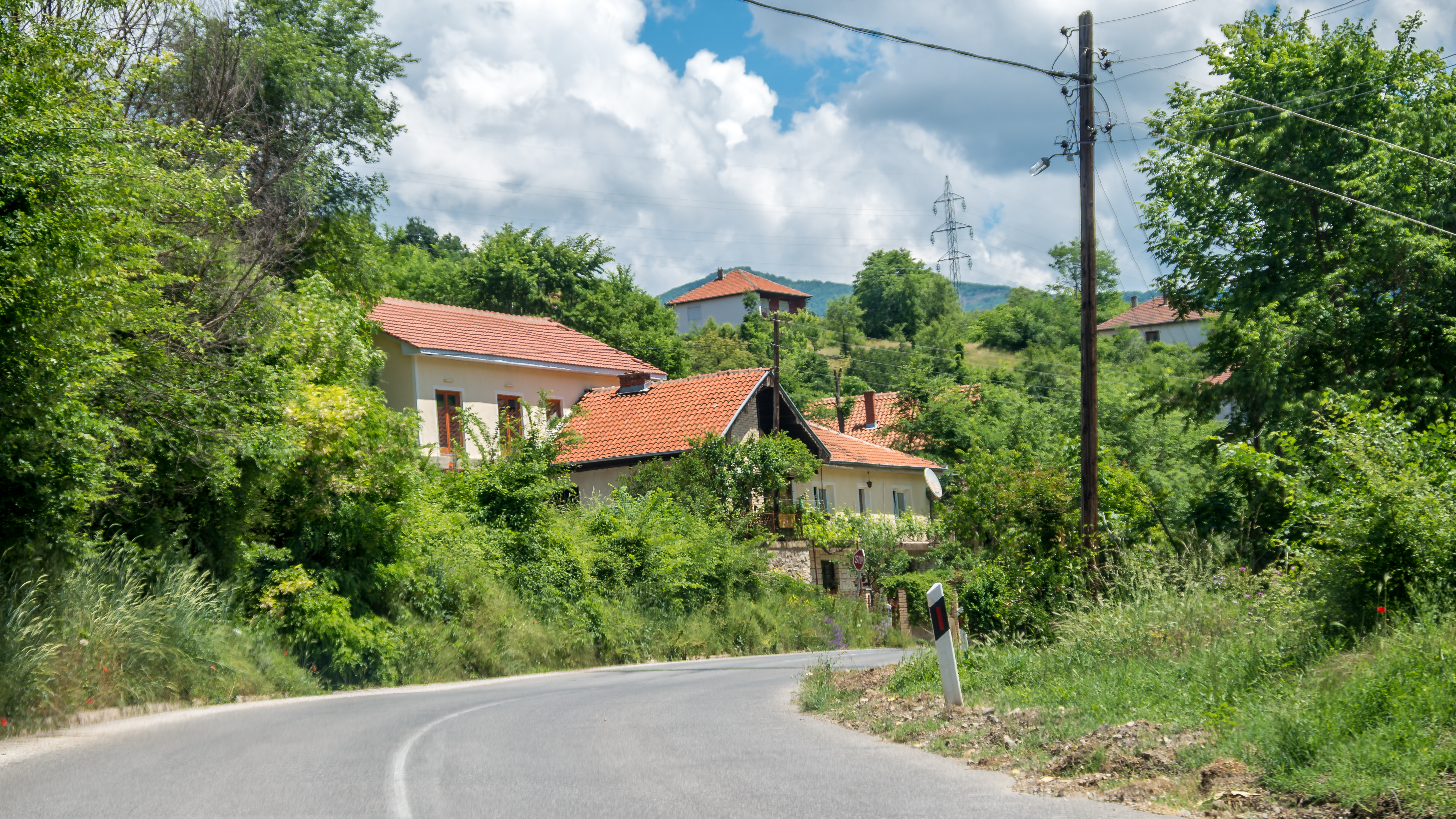 Part of the village Železnica